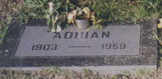 Gravestone of Gilbert Adrian, better known as just Adrian, costume designer and second husband of actress Janet Gaynor. Burial: Hollywood Forever Cemetery, Hollywood, Los Angeles County, California, USA. Plot: Garden of Legends (formerly Section 8), Lot 193, next to Janet Gaynor.